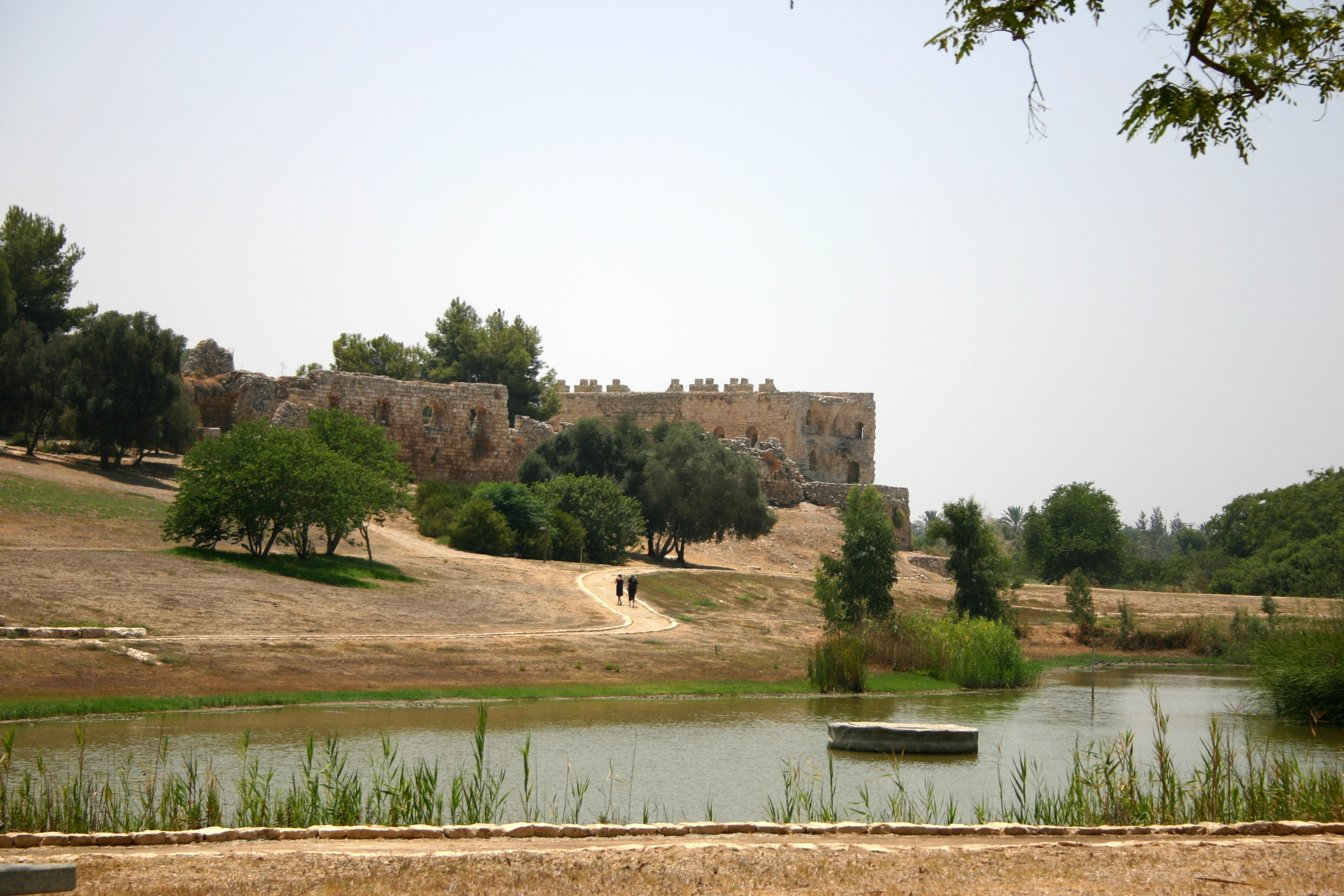 Antipatris